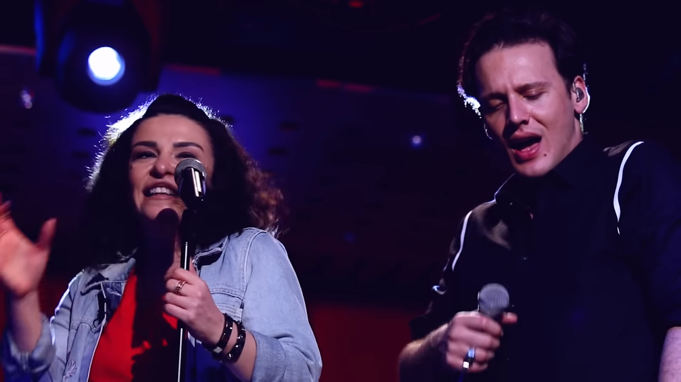 Edis and Fatma Turgut performing "Mey" at Freezone Studio.